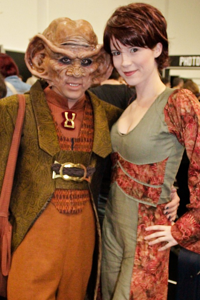 Destination Star Trek London: Trekkies – Ferengi man and Bajoran woman